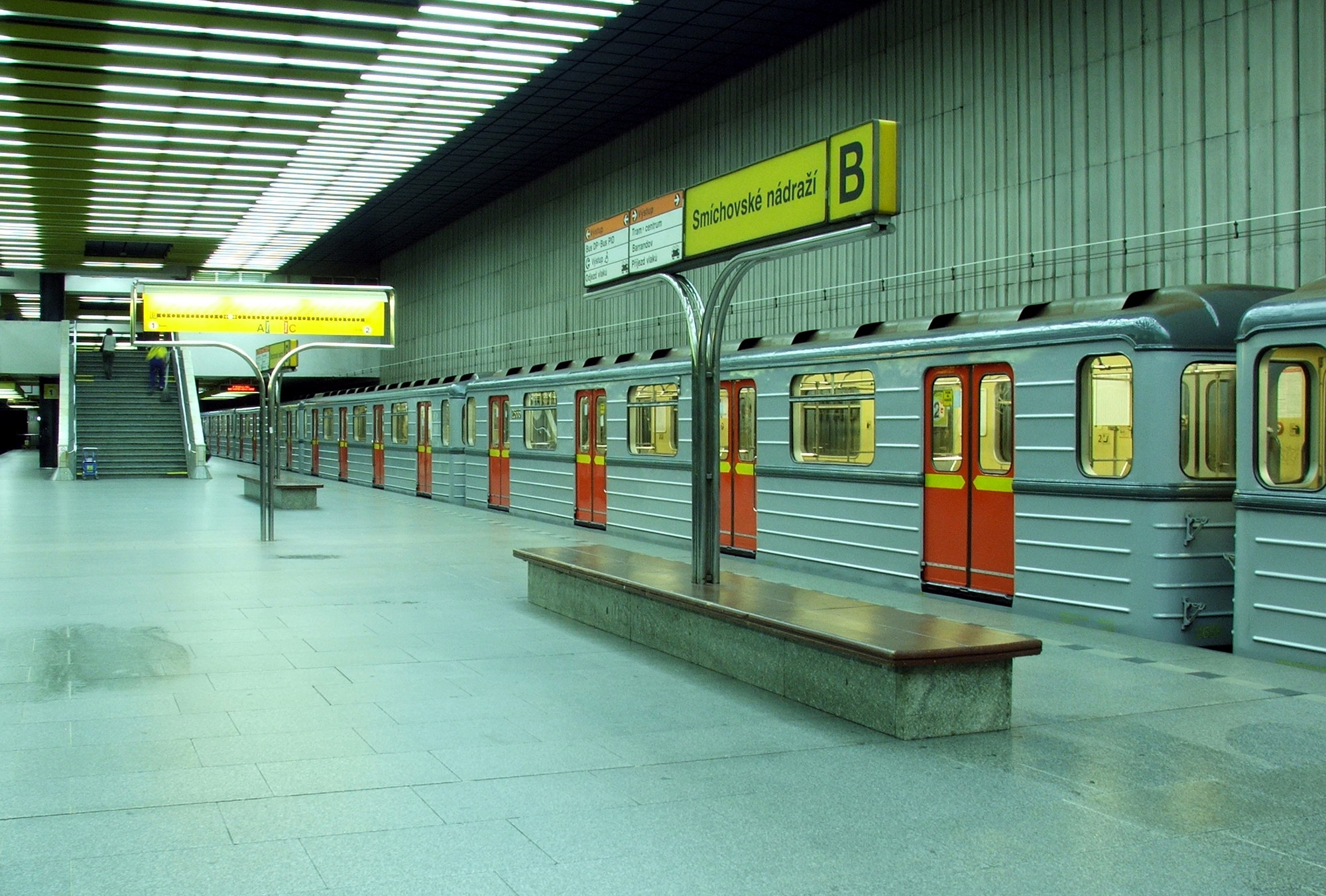 Smíchovské nádraží, metro station, line B, Prague.